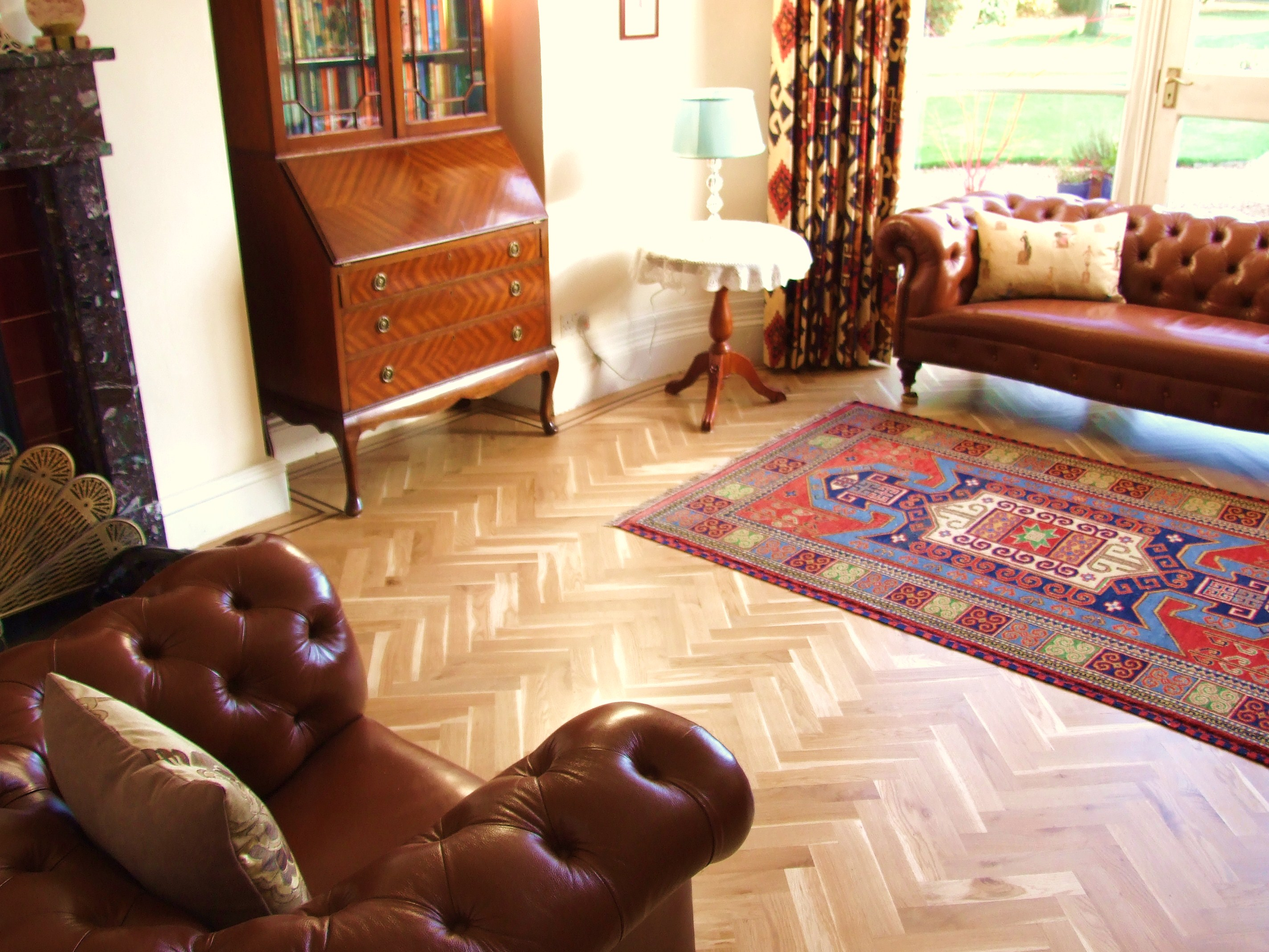 Oak herringbone wood floor with two stripe wenge border